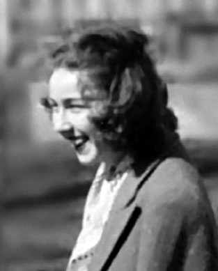 Portrait of American writer Flannery-O'Connor from 1947. Picture is cropped and edited from bigger picture: File:Robie with Flannery 1947.jpg